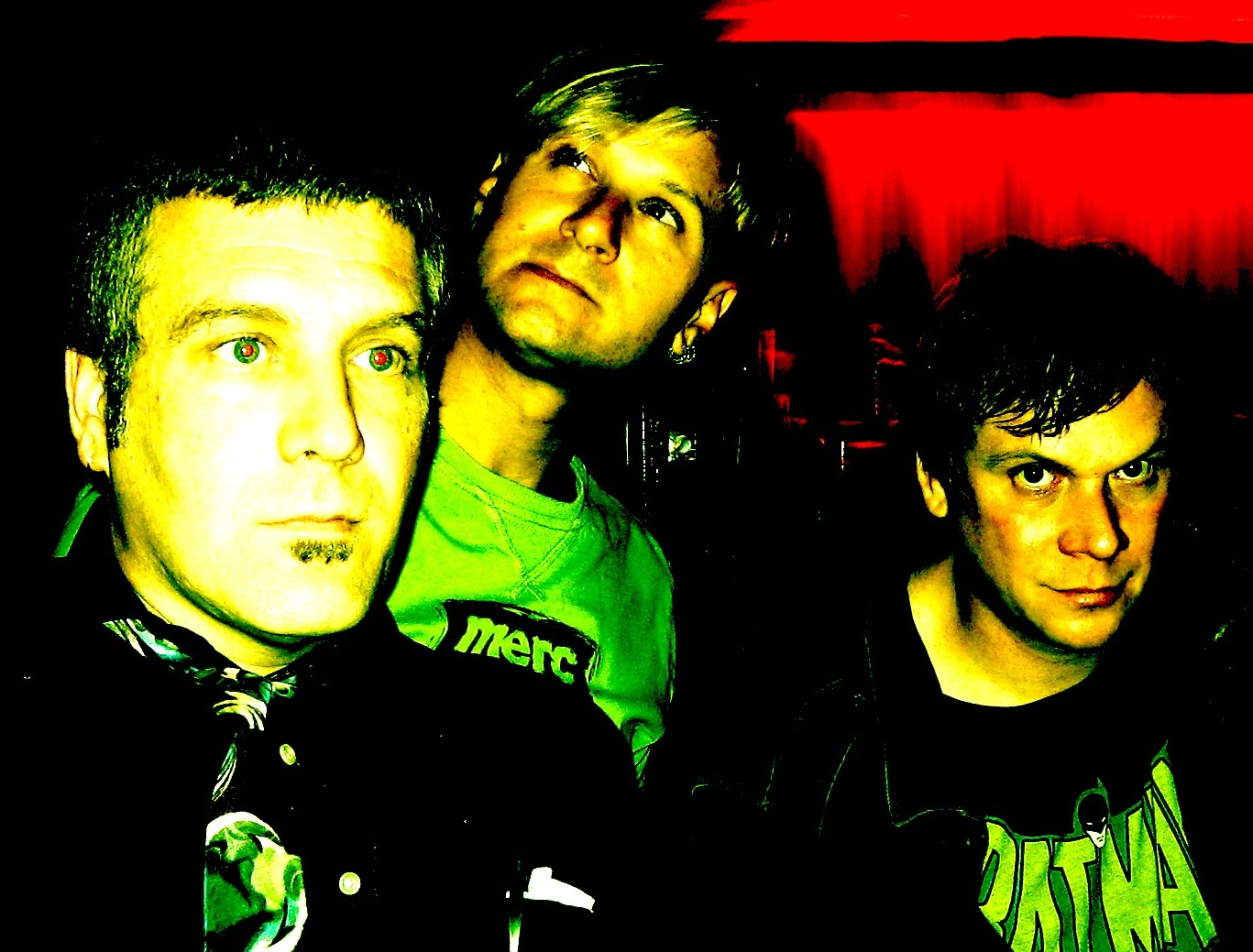 Mod Fun in 2007